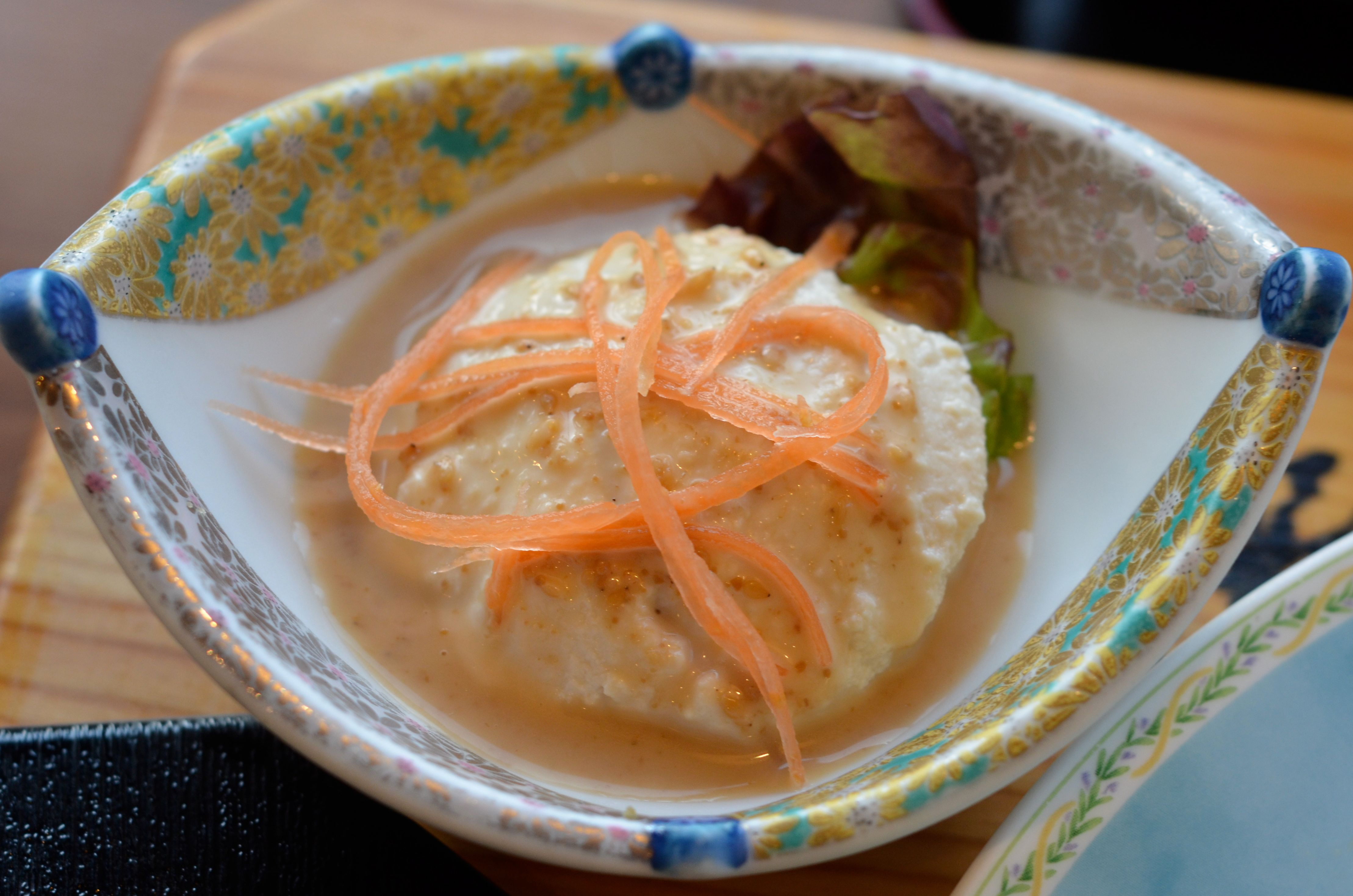 Shima-dofu (island tofu) with sesame dressing at Yumenoya, Ishigaki, Okinawa, Japan.